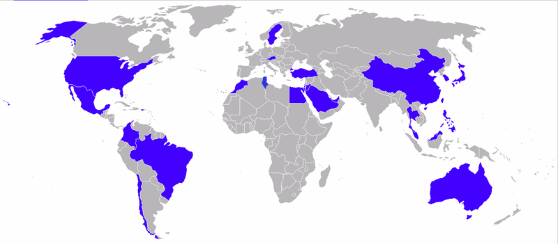 UH-60 Black Hawk Operators 2012 (current in blue - former in red) Note: the borders of Austria and Italy are incorrect. In this version of the map, the part of Austria known as Süd Tirol is still part of Austria, while actually Süd Tirol was annexed by Italy as a result of WW1.